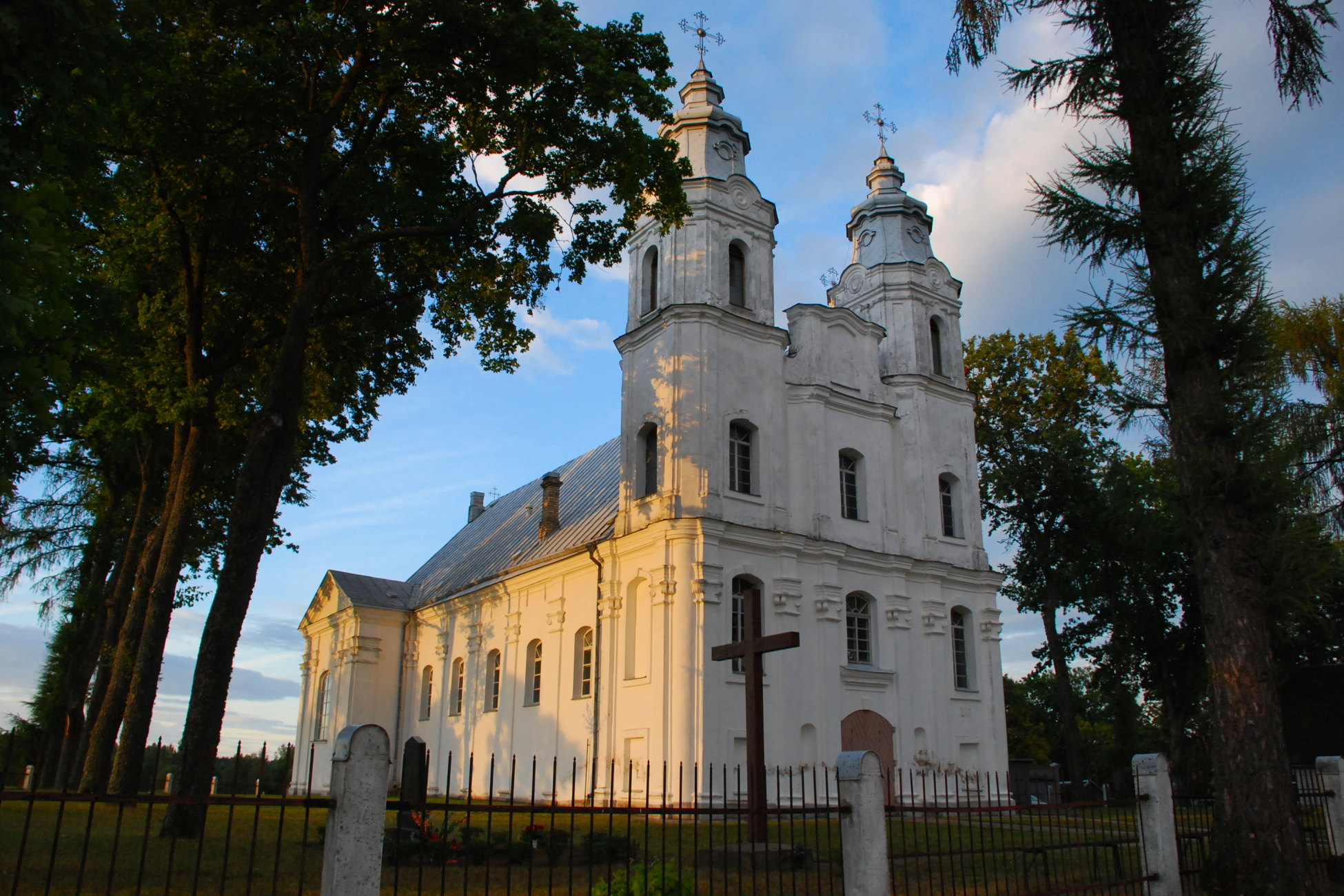 Bērzgale's catholic church